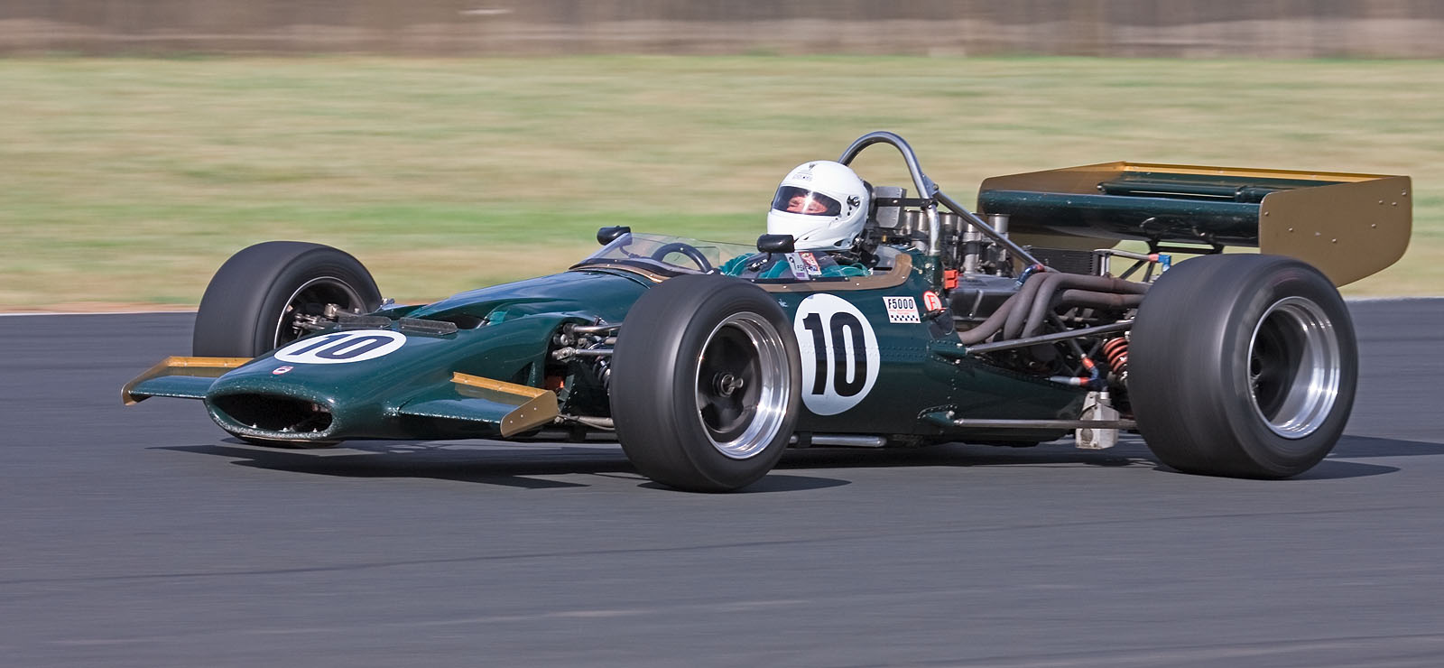 Tasman Revival 2008, Eastern Creek Australia IMG_5695